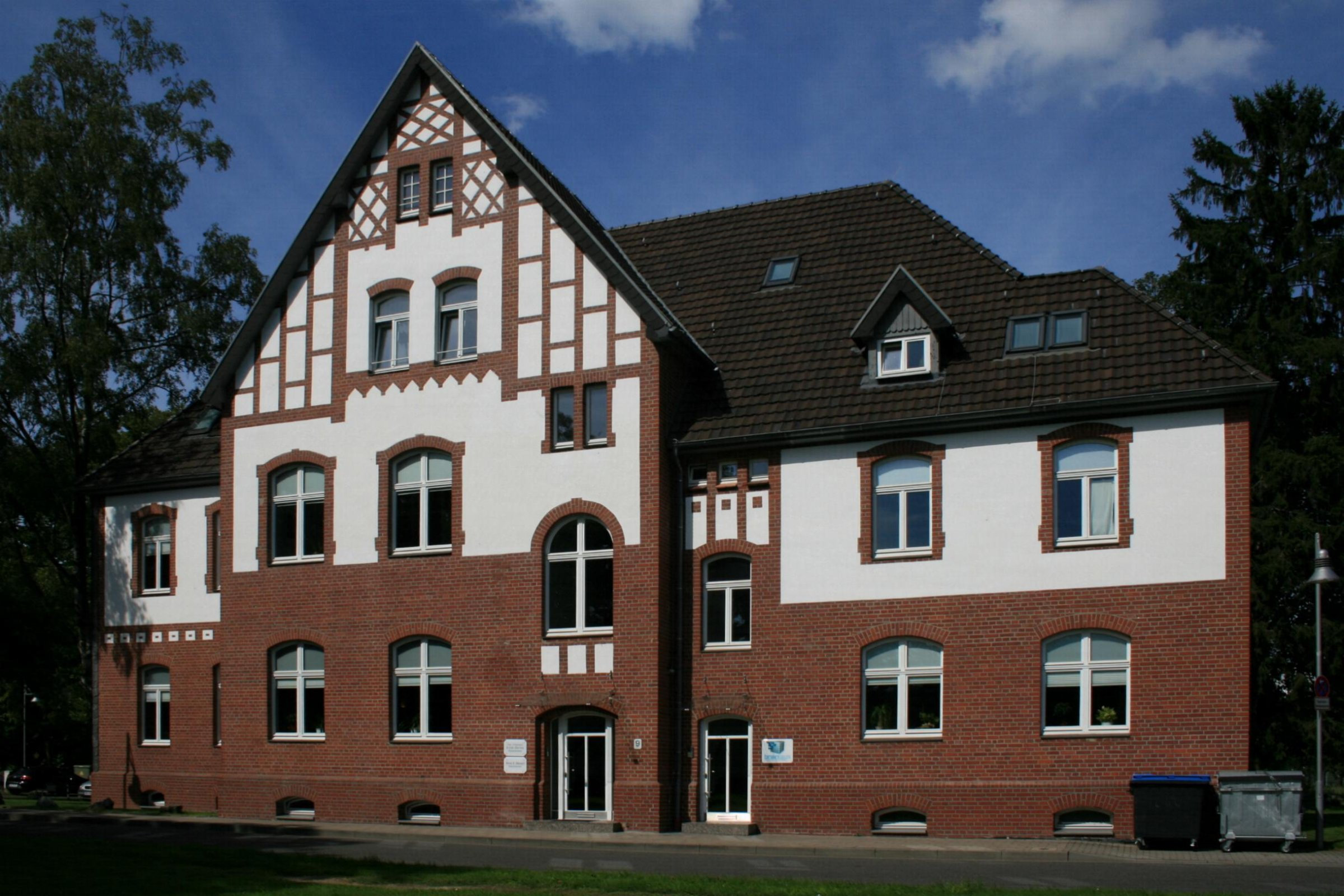 Cultural heritage monument No. N 020 in Mönchengladbach